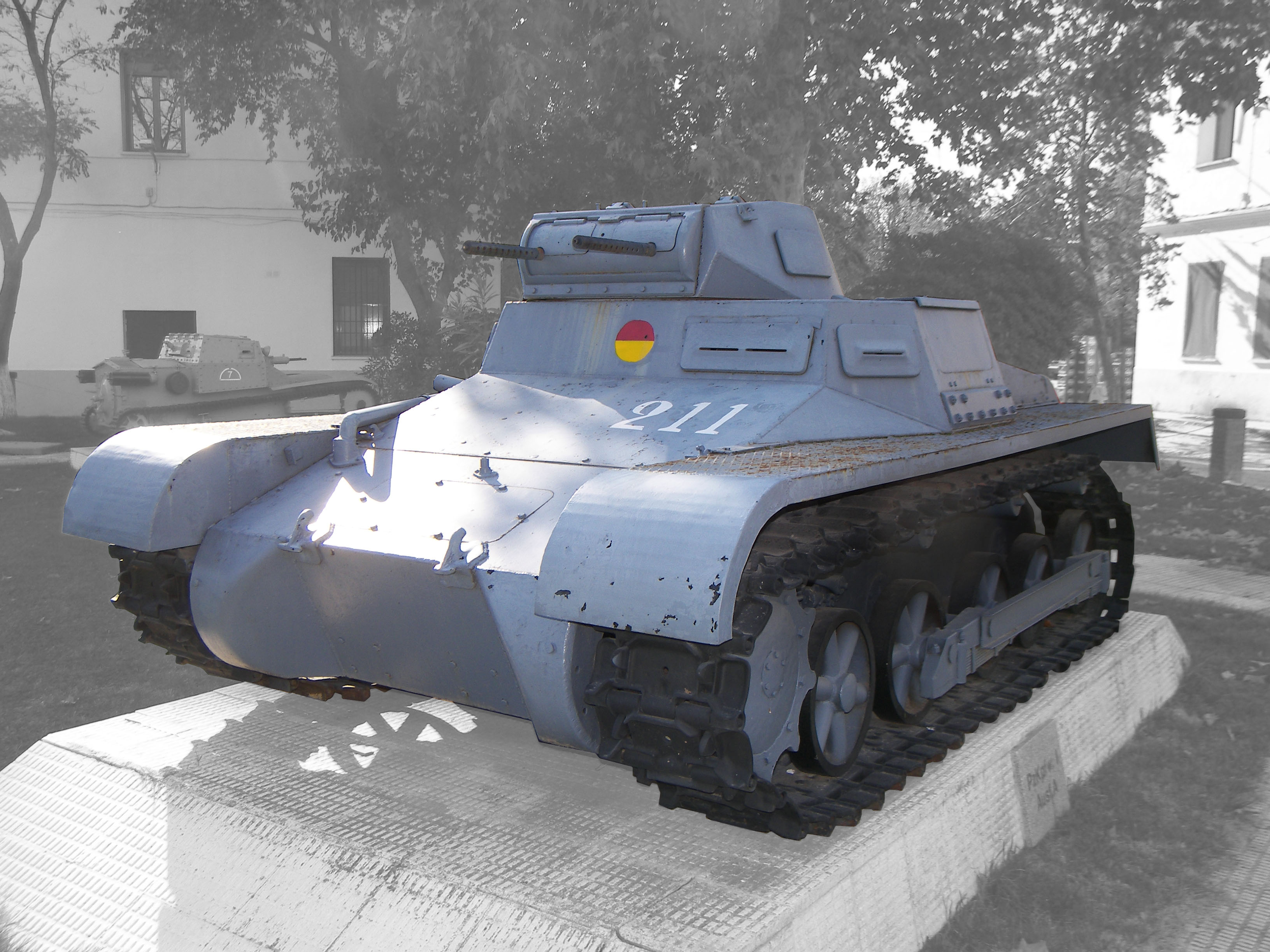 Ausf A